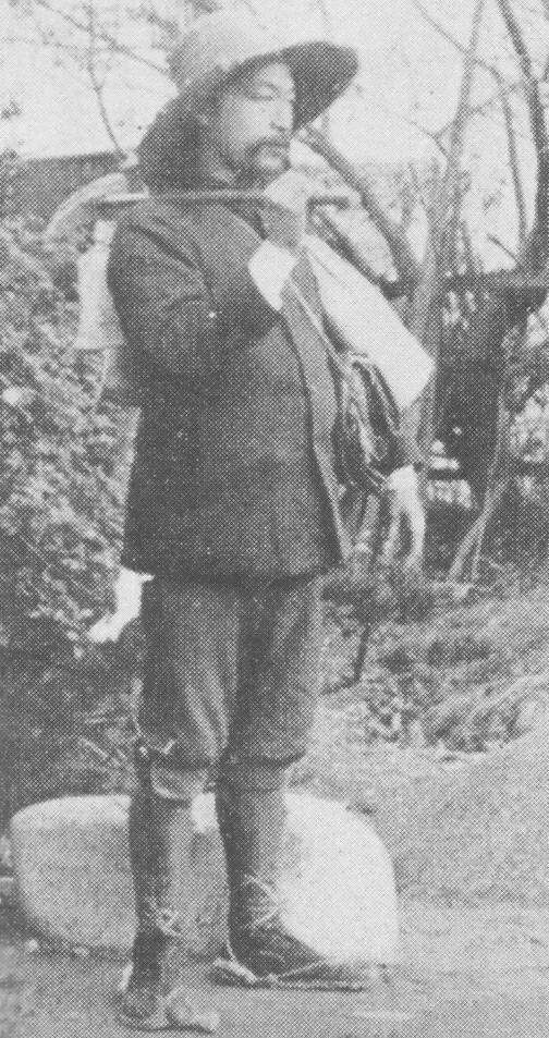 a educator from Japan,保科百助（Hyakuske Hoshina）